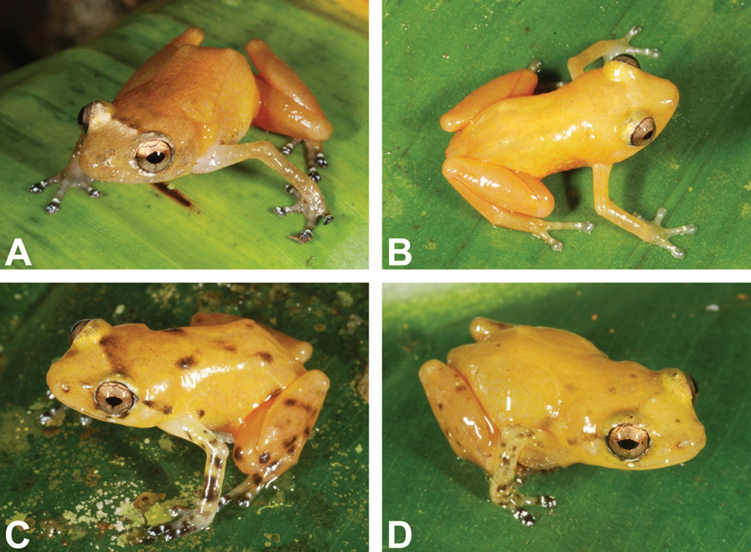 Variation in coloration pattern in life of Diasporus citrinobapheus from different localities: A. Female SMF 89820 from Cerro Negro, Parque Nacional de Santa Fé (Veraguas, Panama) with dirty orange coloration B. Male SMF 89816 from type locality Paredón (Comarca Ngöbe-Buglé, Panama) with immaculate yellow coloration C. Male MHCH 2372 from Willie Mazú (Comarca Ngöbe-Buglé, Panama) with intense mottling D. Male SMF 89817 from Willie Mazú (Comarca Ngöbe-Buglé, Panama) with intermediate mottling.